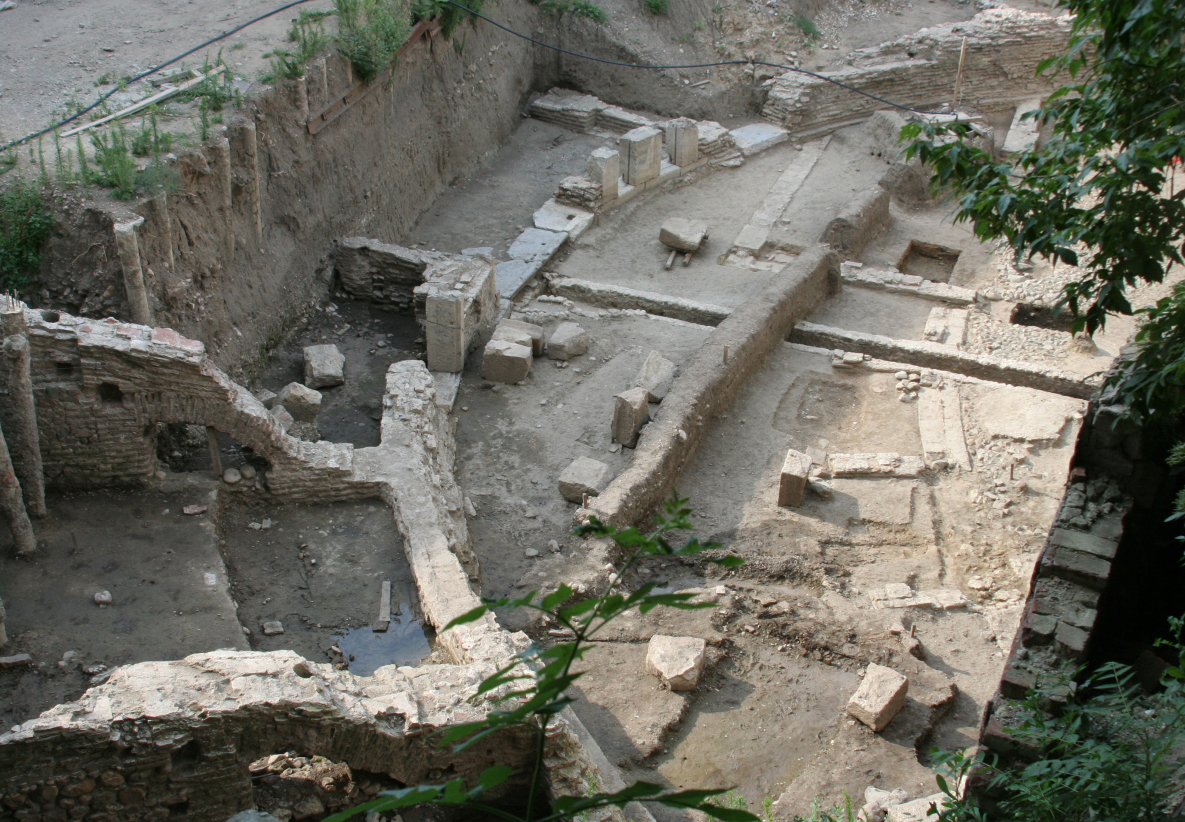 General view of the Amphitheatre of Serdica, from north.